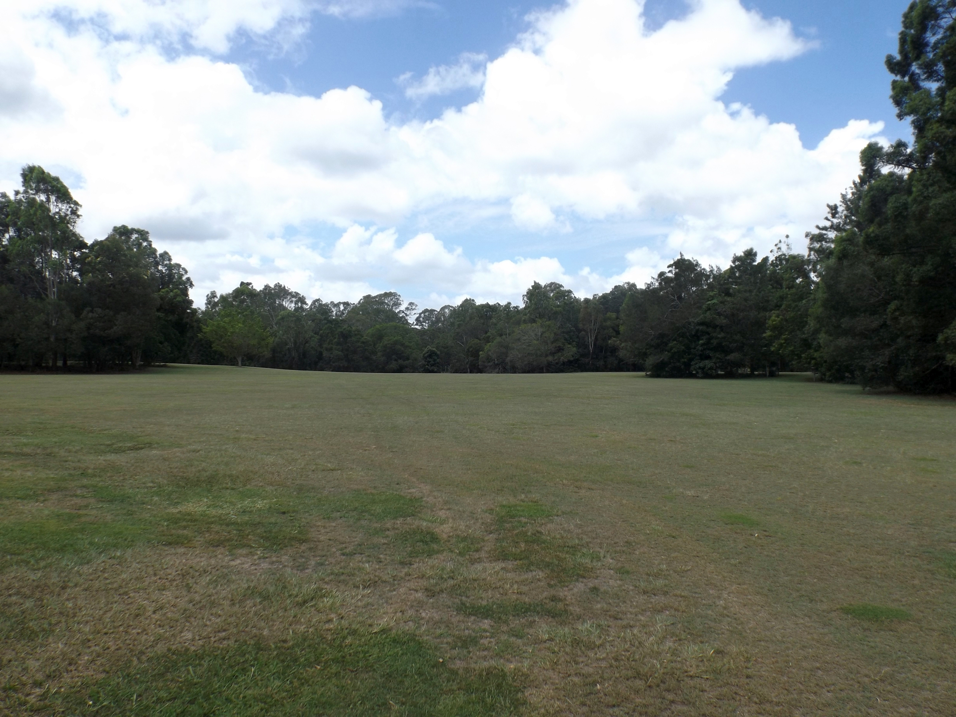 Photo of Alexander Clark Park, Loganholme, City of Logan, Queensland, Australia.